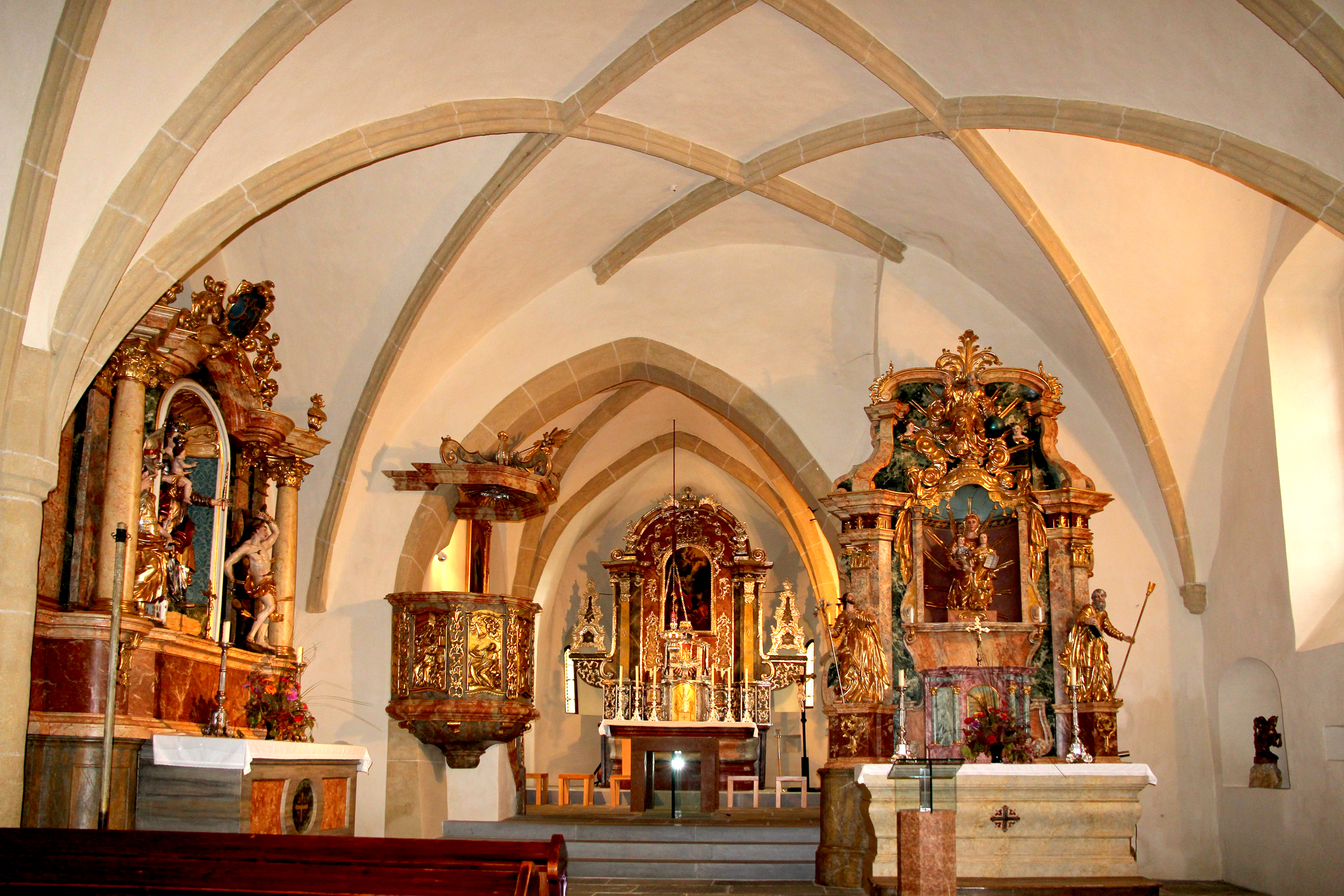 Deutschfeistritz - Kirchberg - Pfarrkirche Dieses Bild wurde anlässlich des österreichischen Tags des Denkmals 2012 in der Steiermark eingereicht.